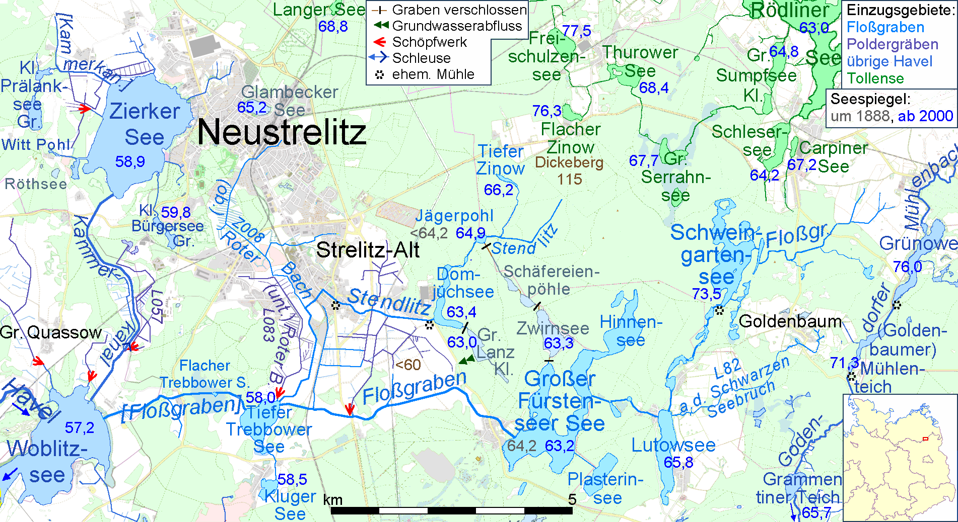 The small canal Floßgraben (with the older course of water named Stendlitz) and the (Voßwinkeler) Kammerkanal are maily man made tributaries of river Havel in Mecklenburg-Vorpommern This map may be incomplete, and may contain errors. Don't rely solely on it for navigation.